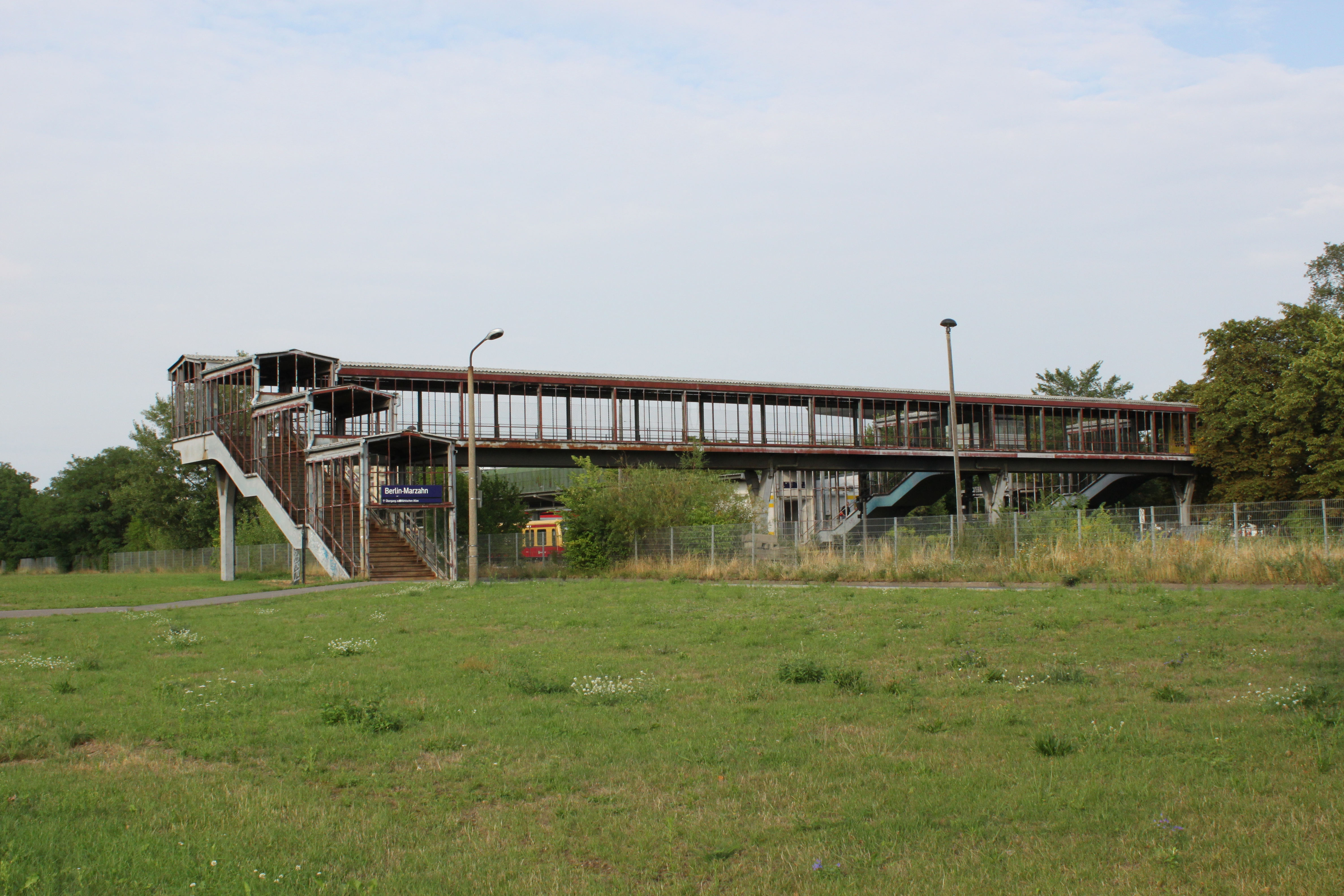 The southern pedestrian overpass of the train station Berlin-Marzahn.